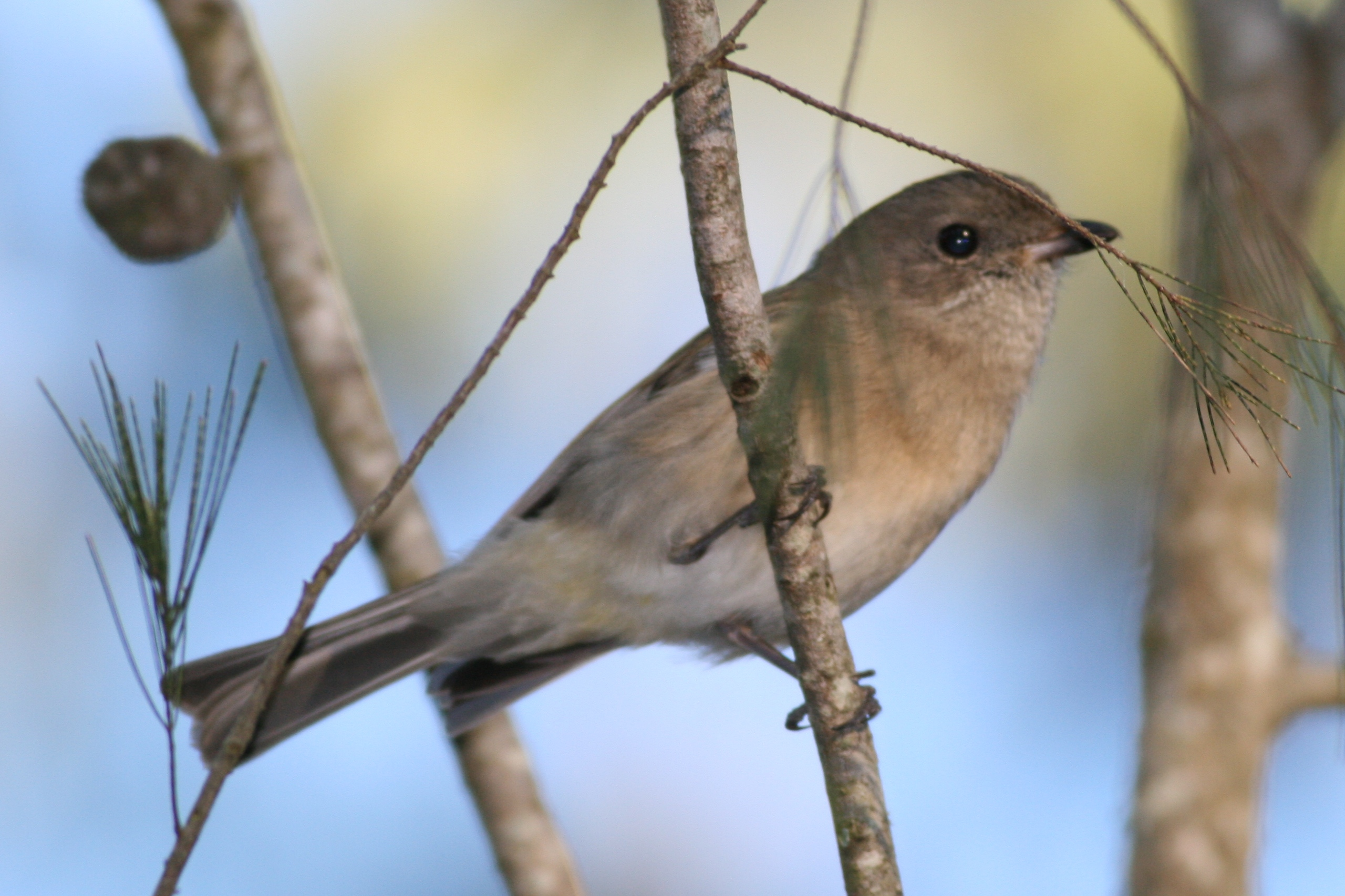 Female Golden Whistler (Pachycephala pectoralis) near Toowoomba, Queensland, Australia. Photographed on 5 May 2009